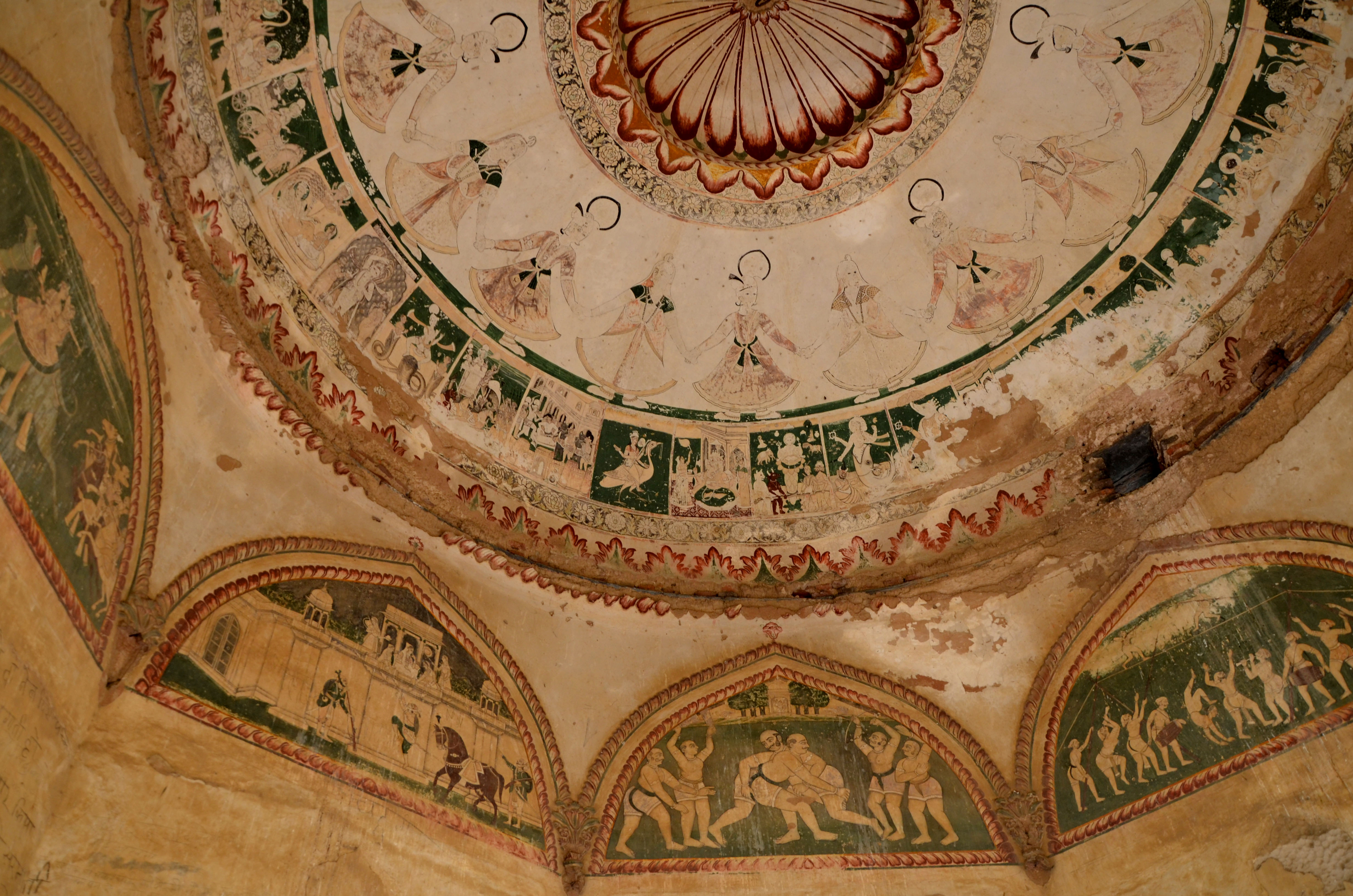 Frescoes inside Sethani ki Chhatri (literally the Chhatri of Sethani, i.e. wife of Seth, a wealth businessman), Farrukhnagar. Central Lotus flower encircled by alternate Radha and Krishna figures depicting the Rasalila, they are further surrounded by scenes from Hindu mythology and the Dashavatar of Vishnu. Below one can see everyday scenes, including Indian-style wrestling, Kushti. Built in 1861 AD.